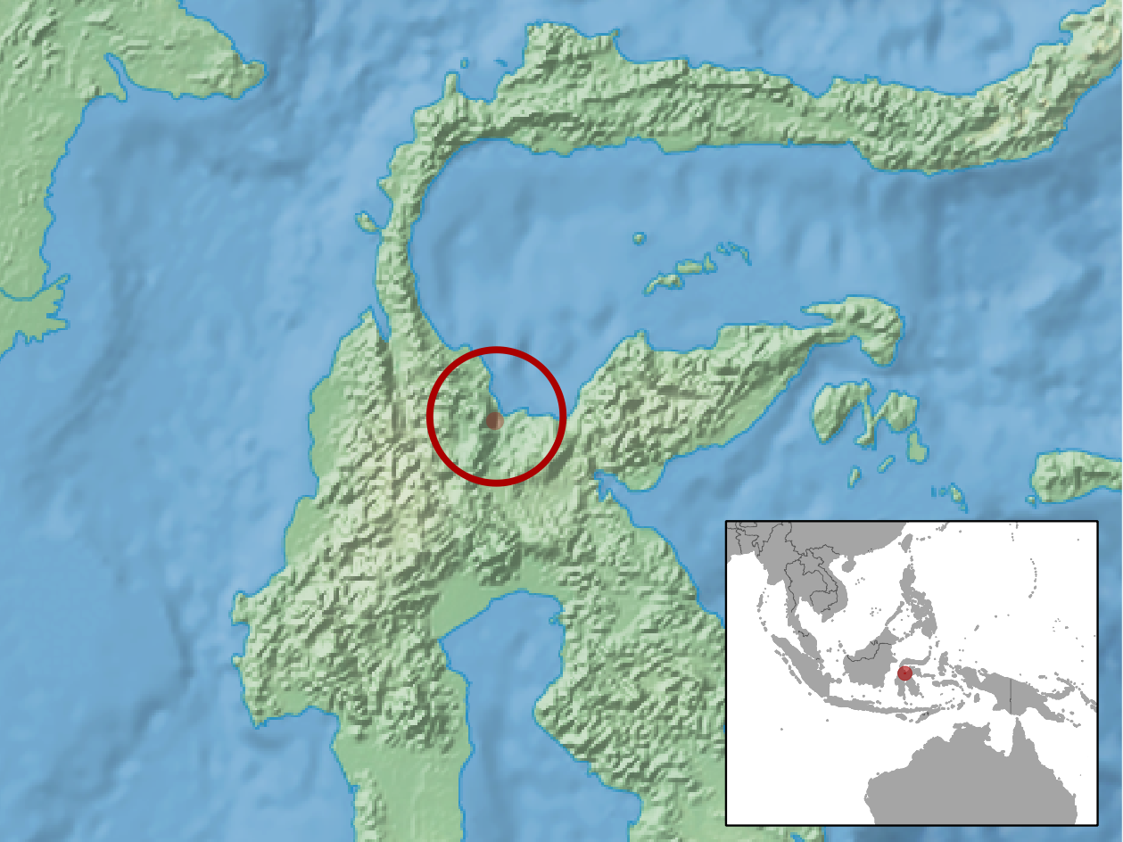 geographic distribution of Taeromys punicans